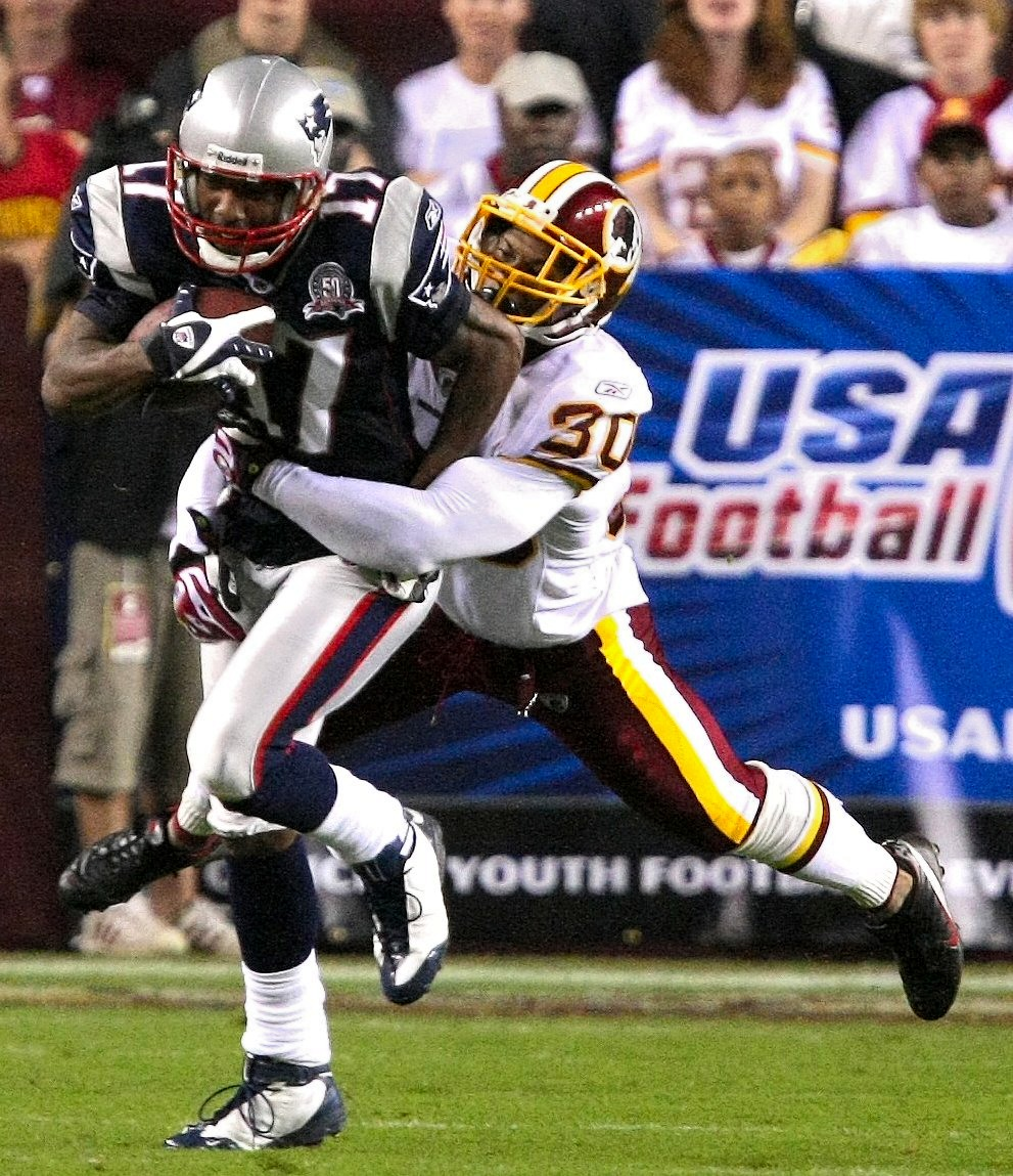 LaRon Landry tackles Patriots wide receiver Greg Lewis in the Washington Redskins vs New England Patriots 2009 preseason game